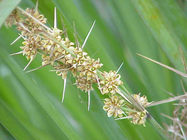 Species: Lomandra filiformis Family: Xanthorrhosaceae Image No. 1